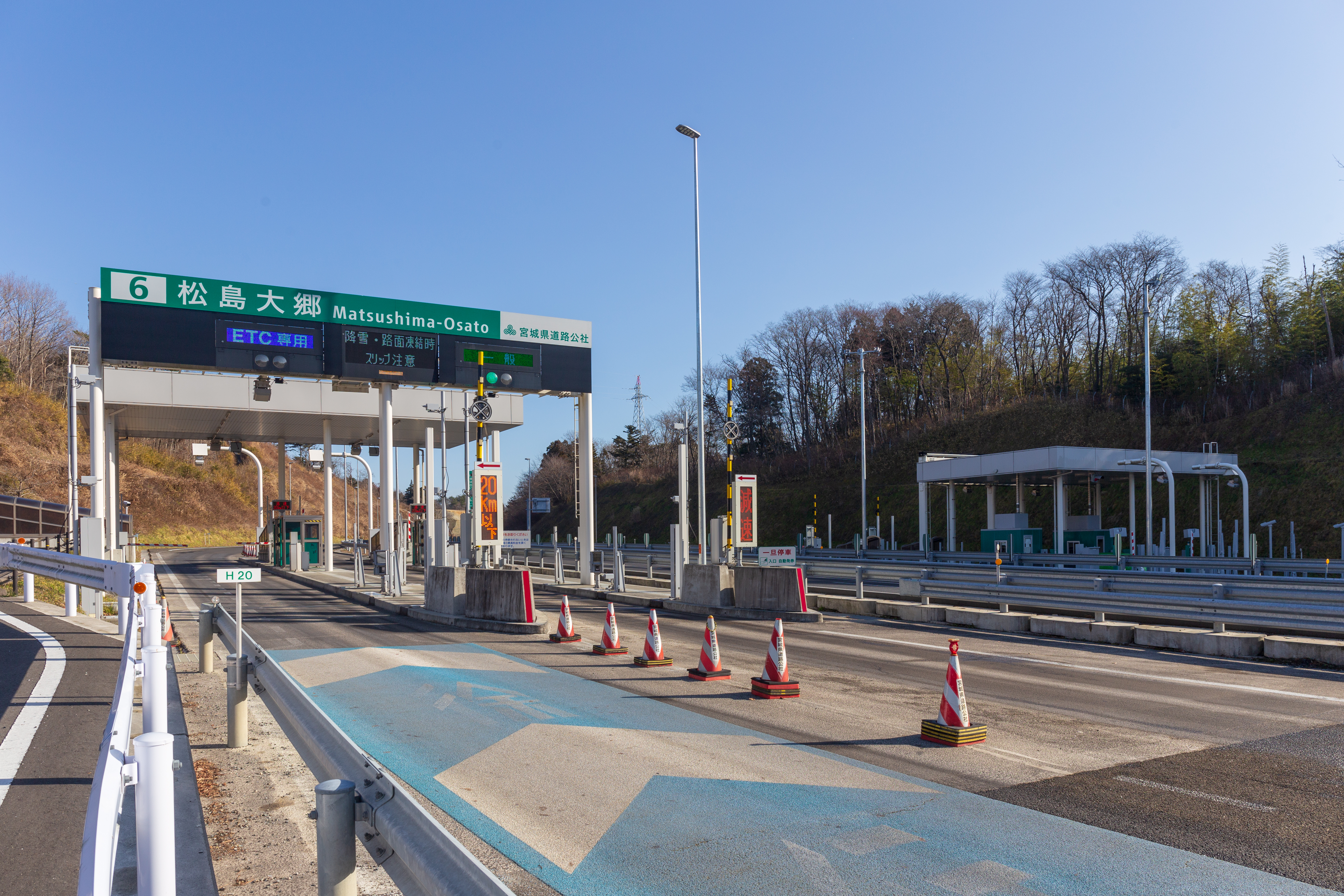 Toll gates at Matsushima-Osato Interchange on the Sanriku Expressway in Matsushima Town, Miyagi Prefecture, Japan